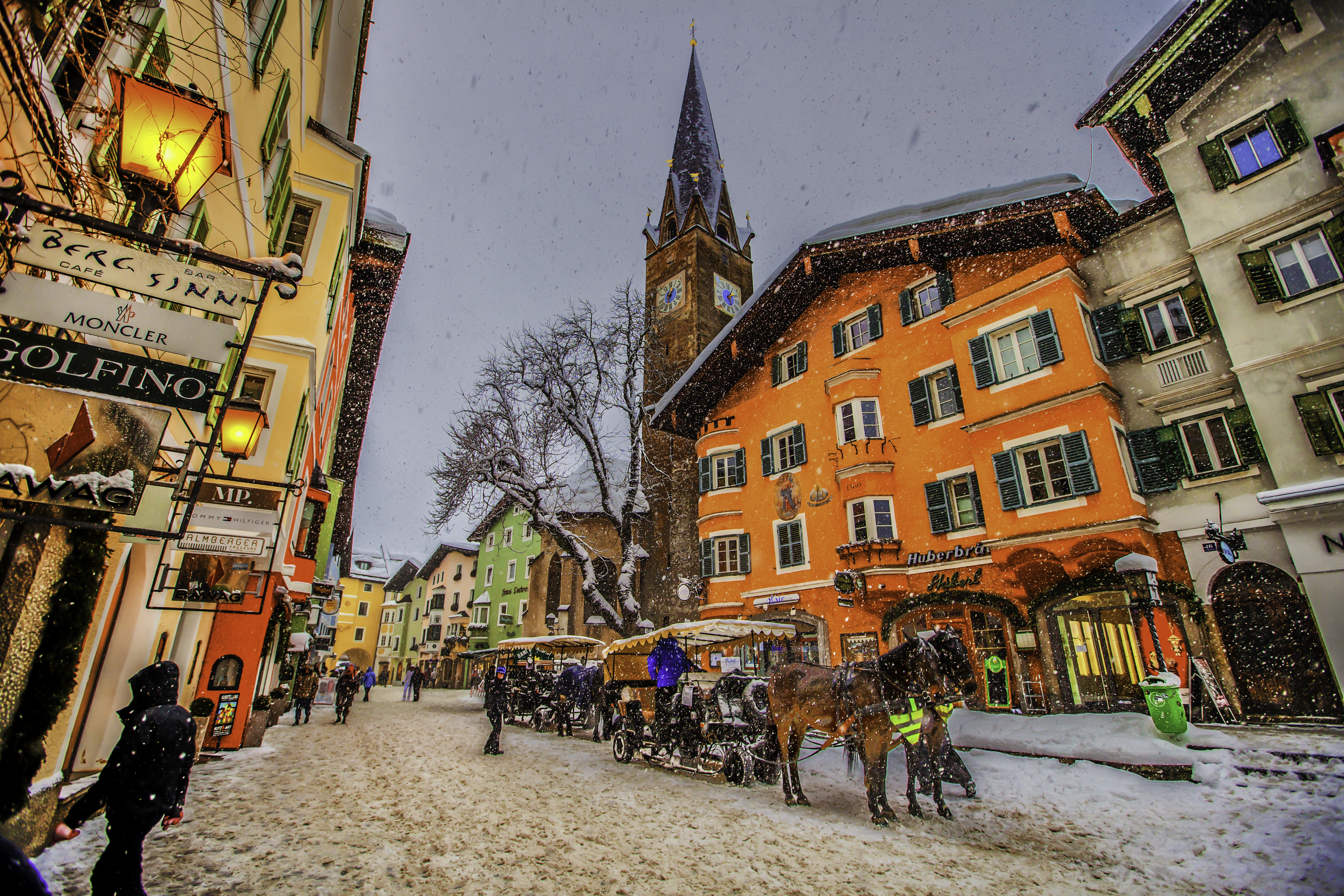 Winter snowing skiing holiday KItzbuhel Austria